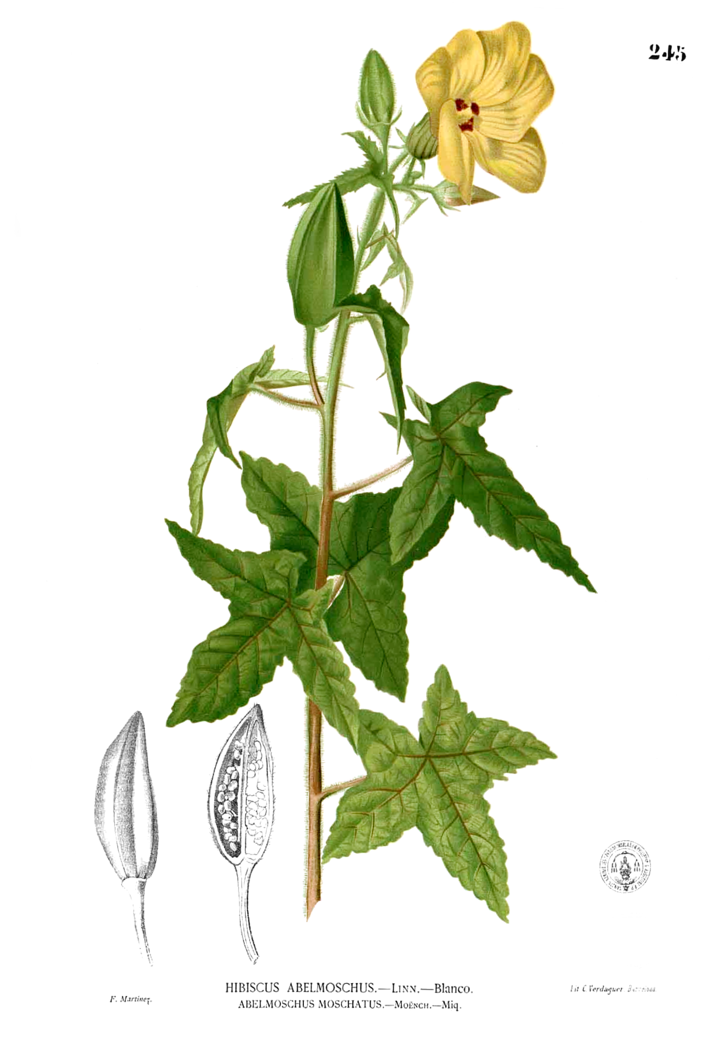 Plate from book